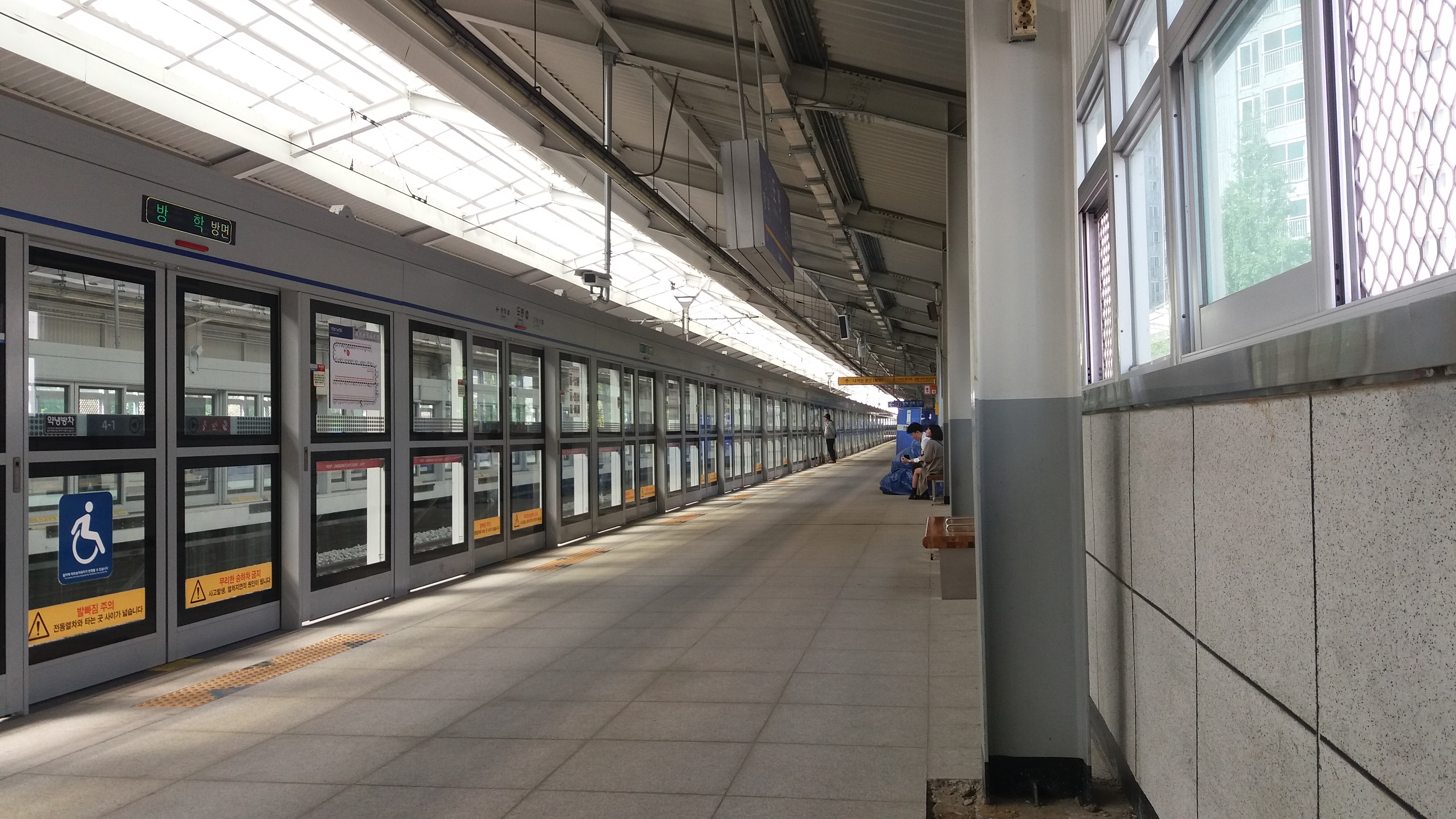 Line 1 Dobong Station(For Banghak station